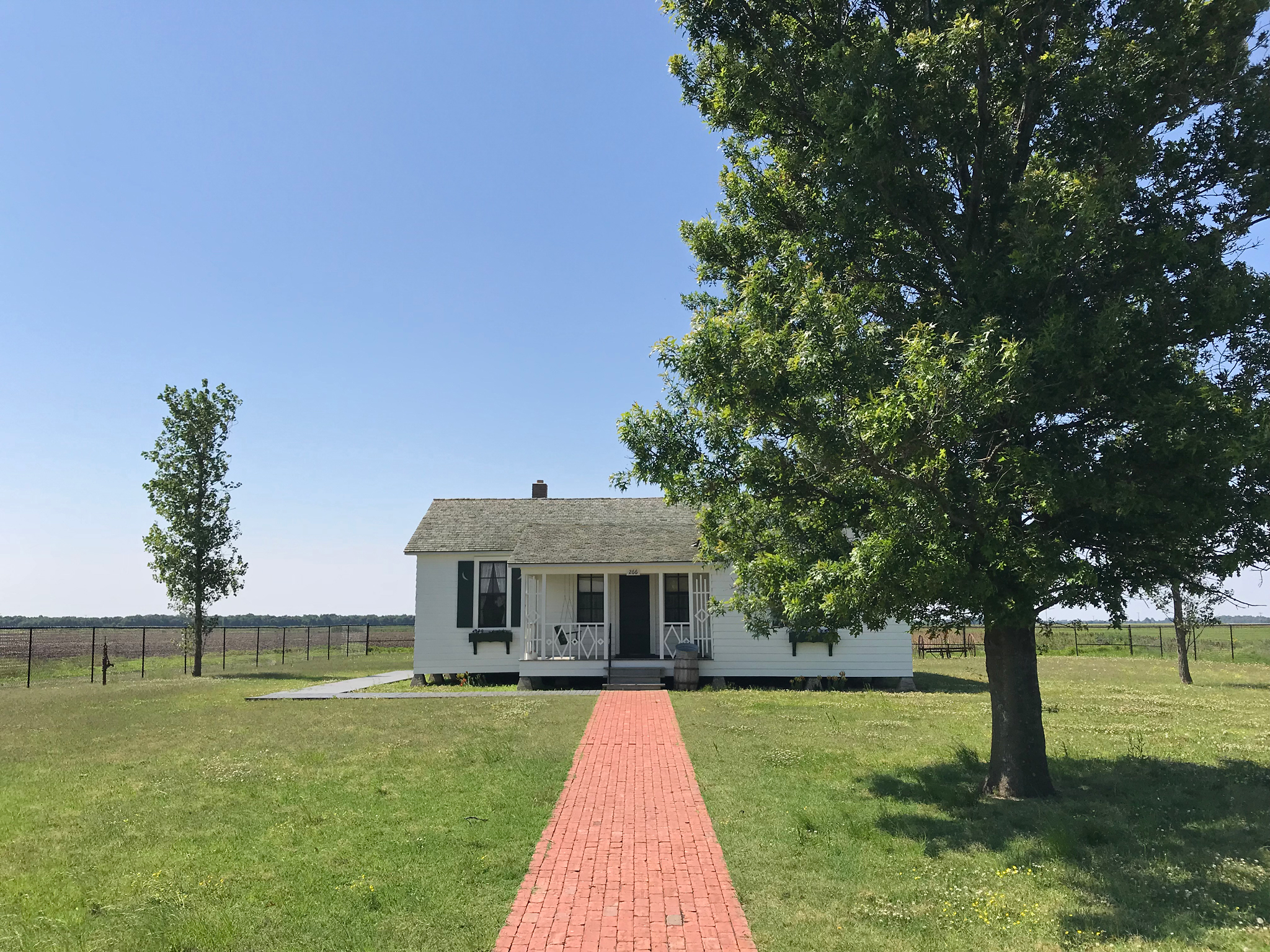 The Johnny Cash Boyhood Home is located at 4791 W Co Rd 924, Dyess, AR 72330. Johnny Cash lived here from boyhood to high school. The site is listed as "Farm No. 266 - Johnny Cash Boyhood Home" on the National Register of Historic Places.